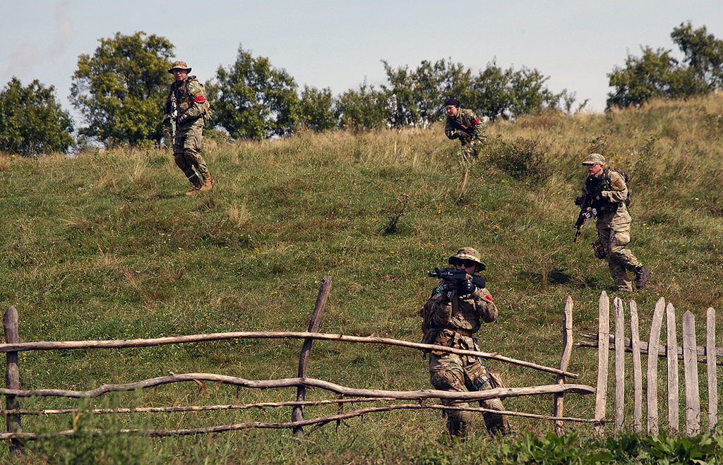 A scene from an airsoft event held in Romania called The Gathering: Operation First Stone.